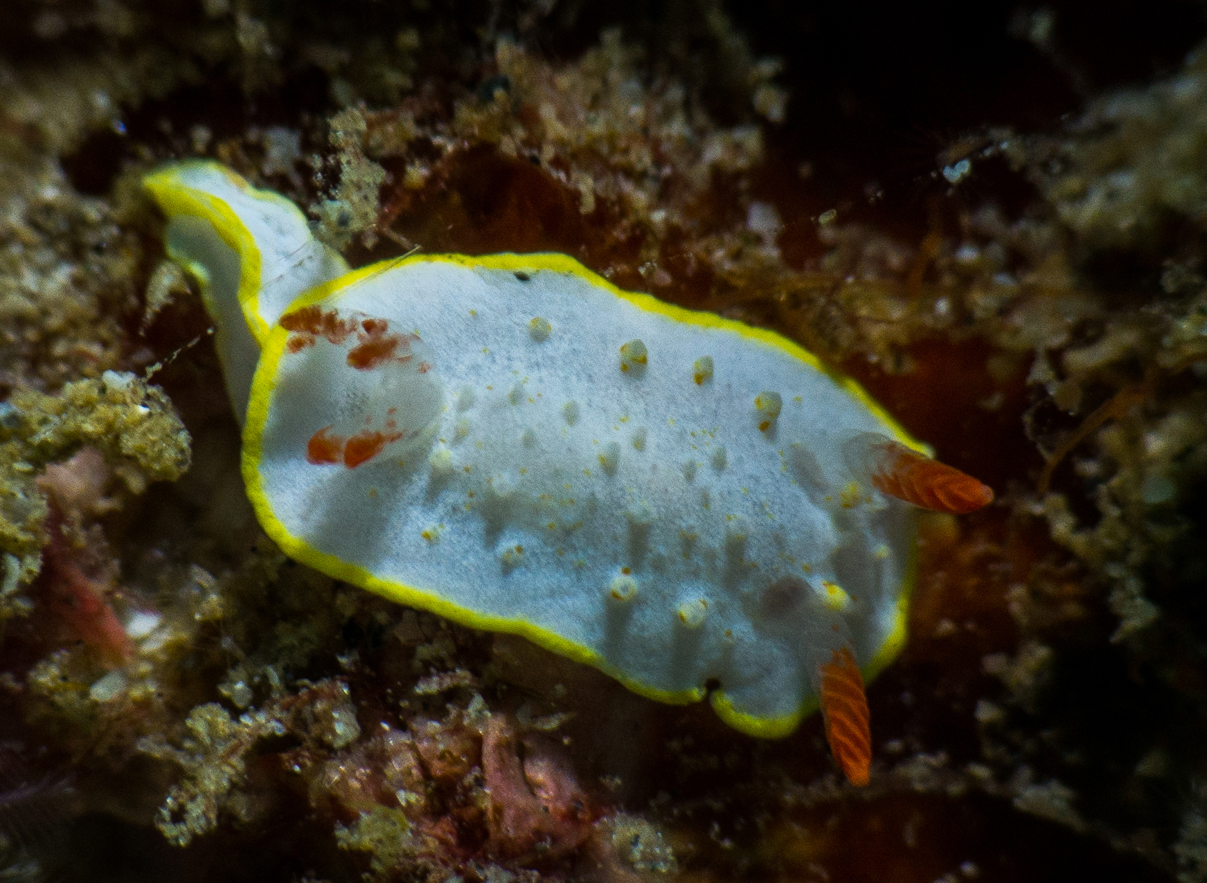 Ola Khalaf's Nudibranch (Diaphorodoris olakhalafi Khalaf, 2017) from Dibba Sea, Gulf of Oman, East Coast of the United Arab Emirates.